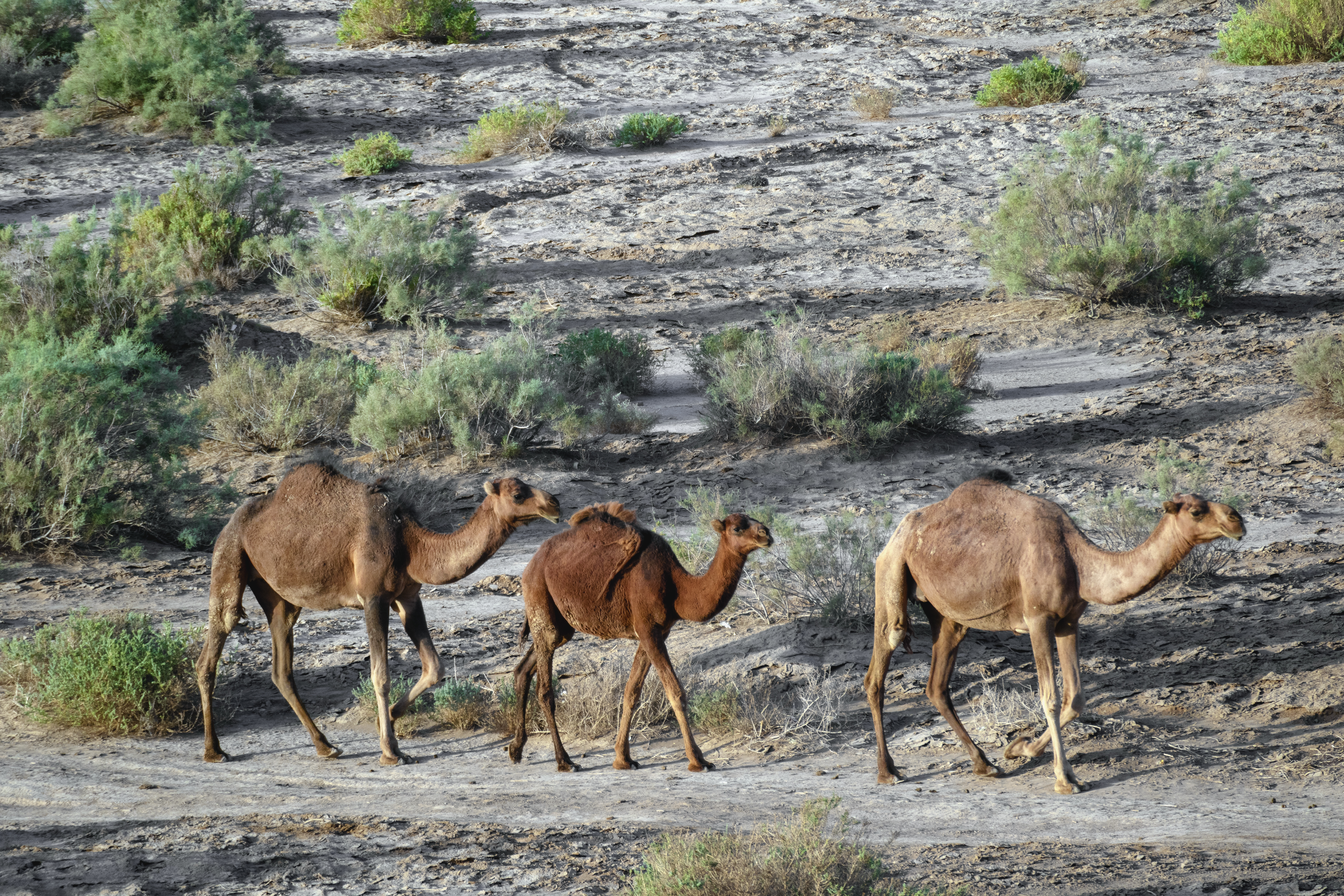 Animals are multicellular eukaryotic organisms that form the biological kingdom Animalia.